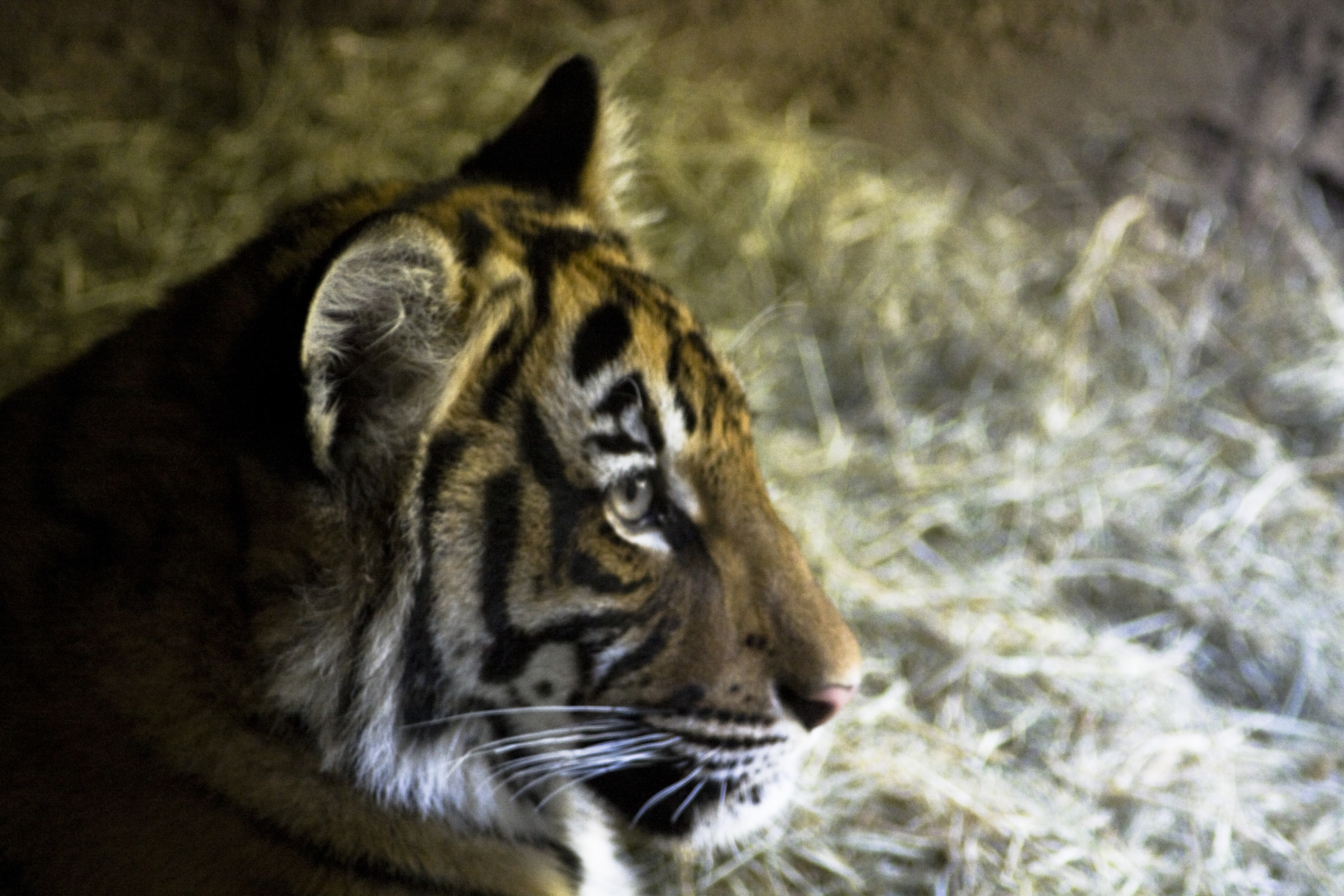 this one came out a little blurry because it was taken through glass